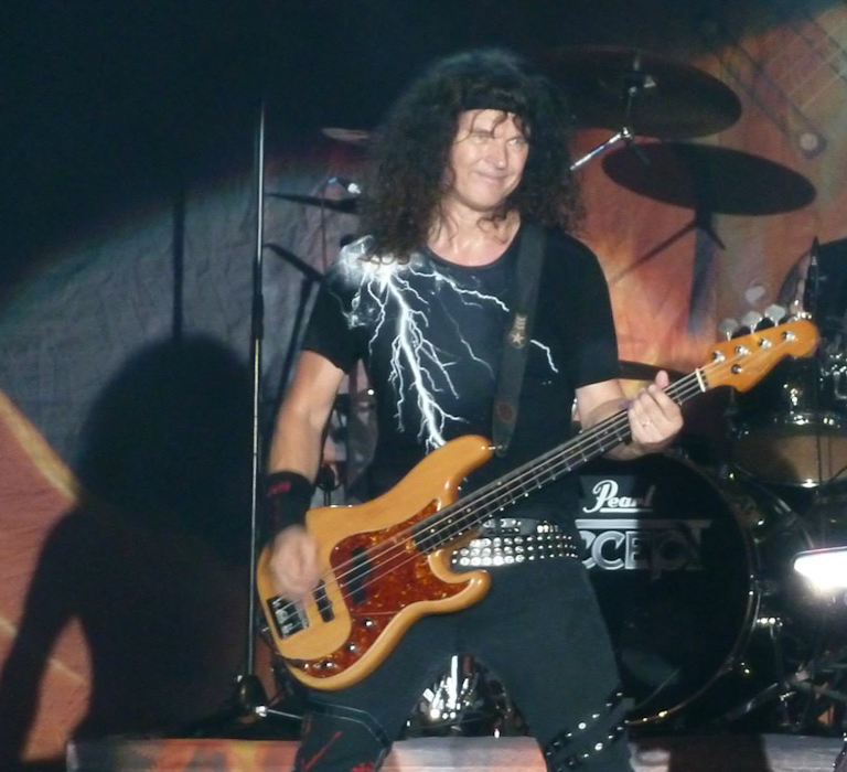 Peter Baltes, bass guitarist of the German heavy metal band Accept performing at Kavarna Rock Fest 2013, Bulgaria.